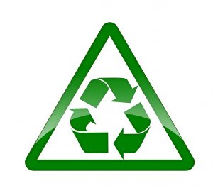 Recycle logo